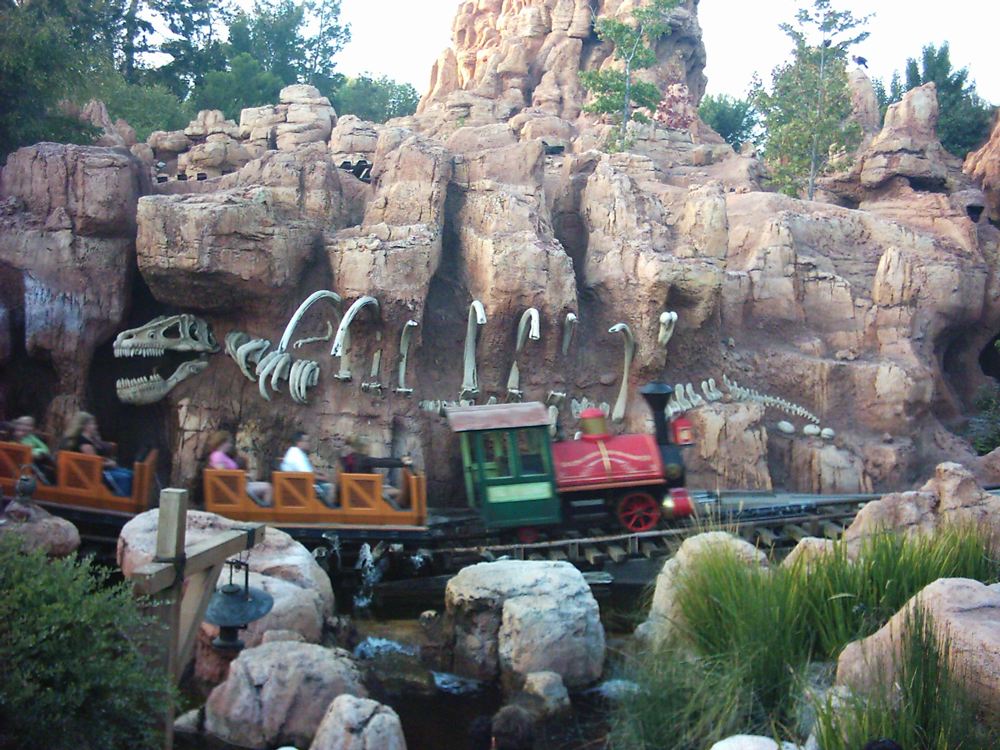 The train of the Disneyland ride Big Thunder Railroad under the (fake) bones of a T-rex